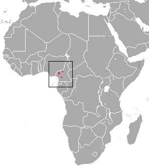 Manenguba Shrew (Crocidura manengubae) range